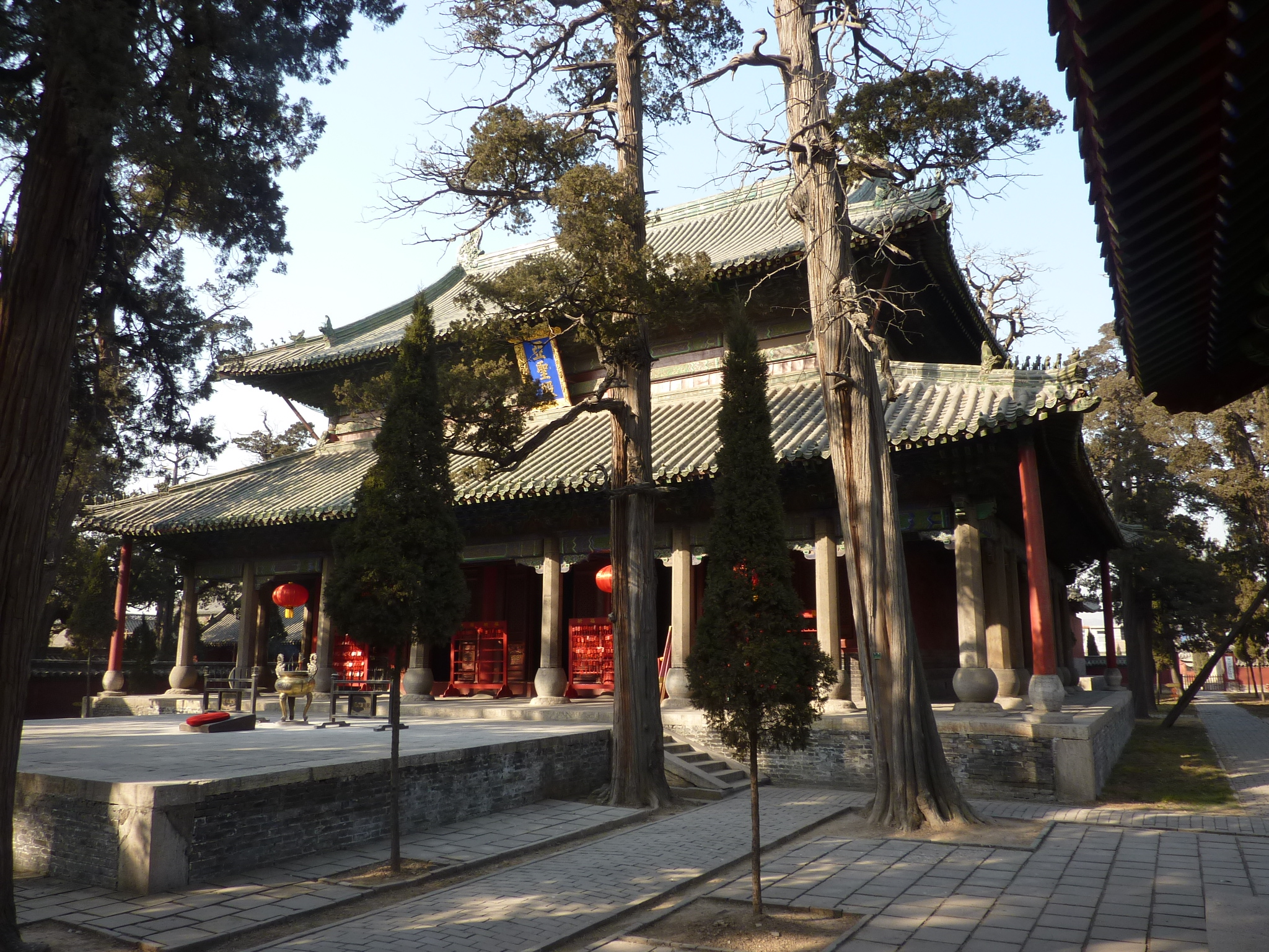 Yasheng Dian ("Hall of the Second Sage", i.e. Mencius), the main sanctuary of the Temple of Mencius in Zoucheng.